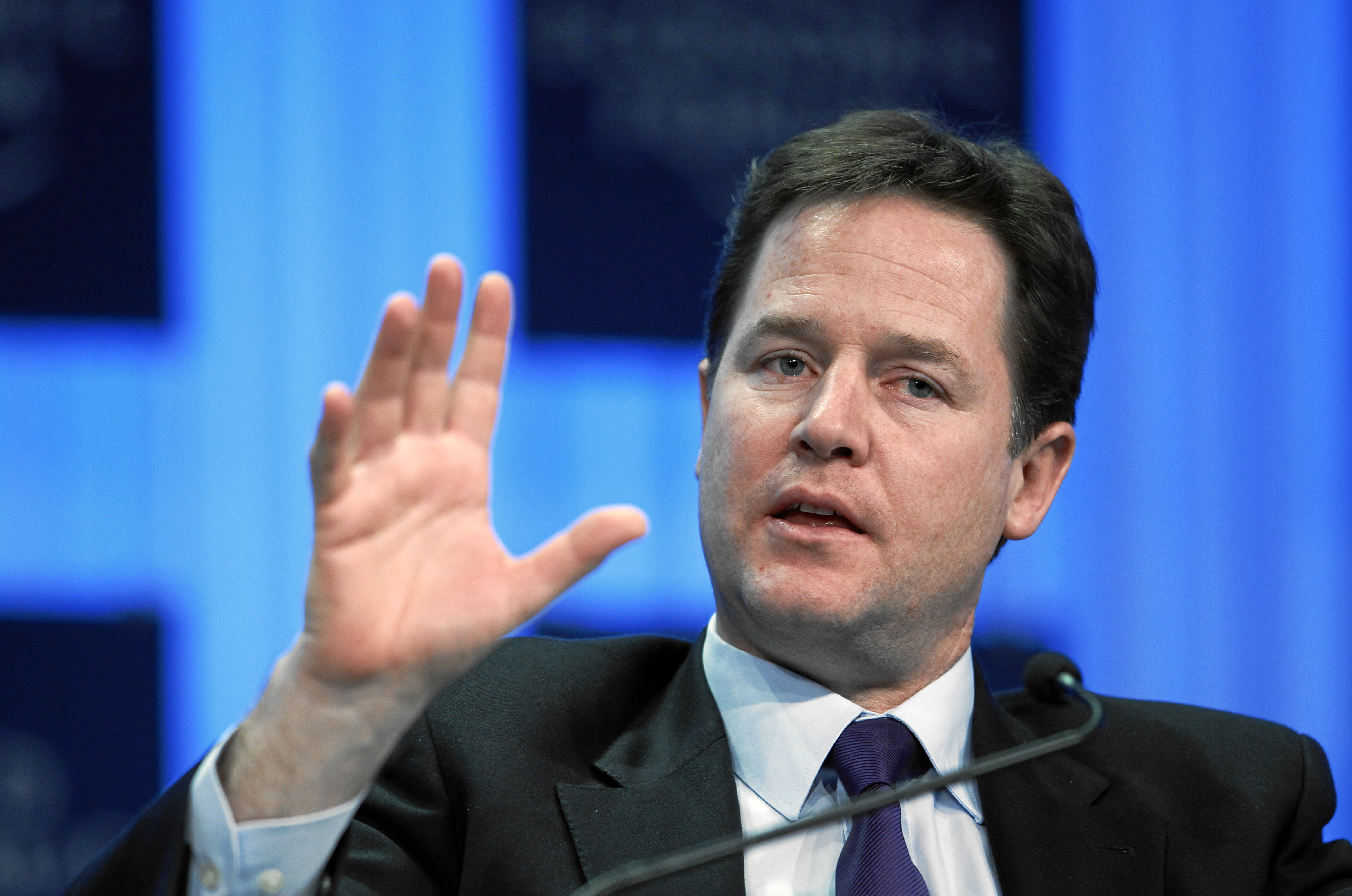 Nick Clegg, Deputy Prime Minister of the United Kingdom, speaks the session 'Europe: Back to the Drawing Board?' at the Annual Meeting 2011 of the World Economic Forum in Davos, Switzerland, January 27, 2011.